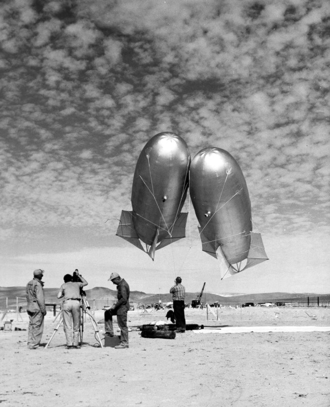 Indian Springs AFB, Nevada, April 20, 1952 -- Exact weather information is a prime necessity during atomic test periods. To obtain information concerning air pressure, temperature and humidity, these captive, helium-filled "Kytoon" balloons, are supplied by the USAF's Air Weather Service during the AEC's periodic atomic tests at the Nevada Proving Grounds. Kytoon balloons are sent aloft before each nuclear test, and are hauled down minutes before the actual detonation occurs. Last minute weather information is thus relayed by remote control to the AEC Test Director at the Proving Grounds Control Point.